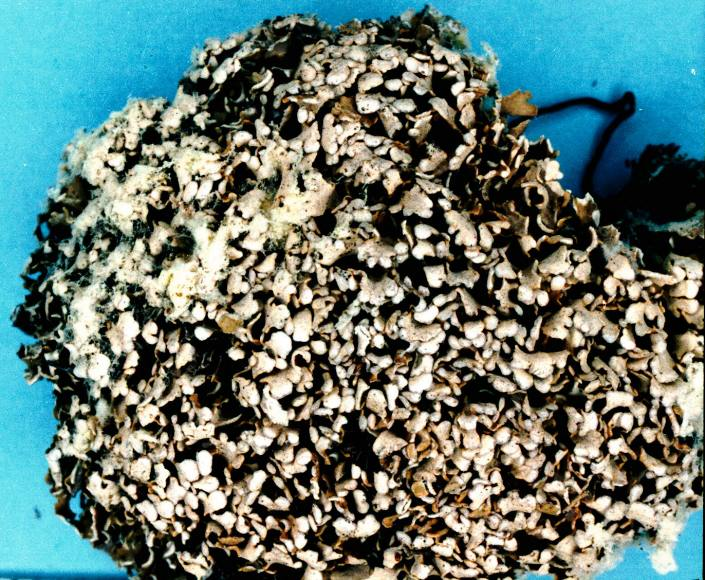 Cladonia robbinsii A. Evans, 1944 (photograph of a herbarium specimen) Growing on soil at Schluckebler Prairie, near County Highway PF, 3.2 miles E of Slotty Road, Sauk County, Wisconsin, USA; collected and identified by Elmer G. Worthley (No. L-80, 24 Mar 1977); specimen is now in the Lichen Herbarium of the New York Botanical Garden.